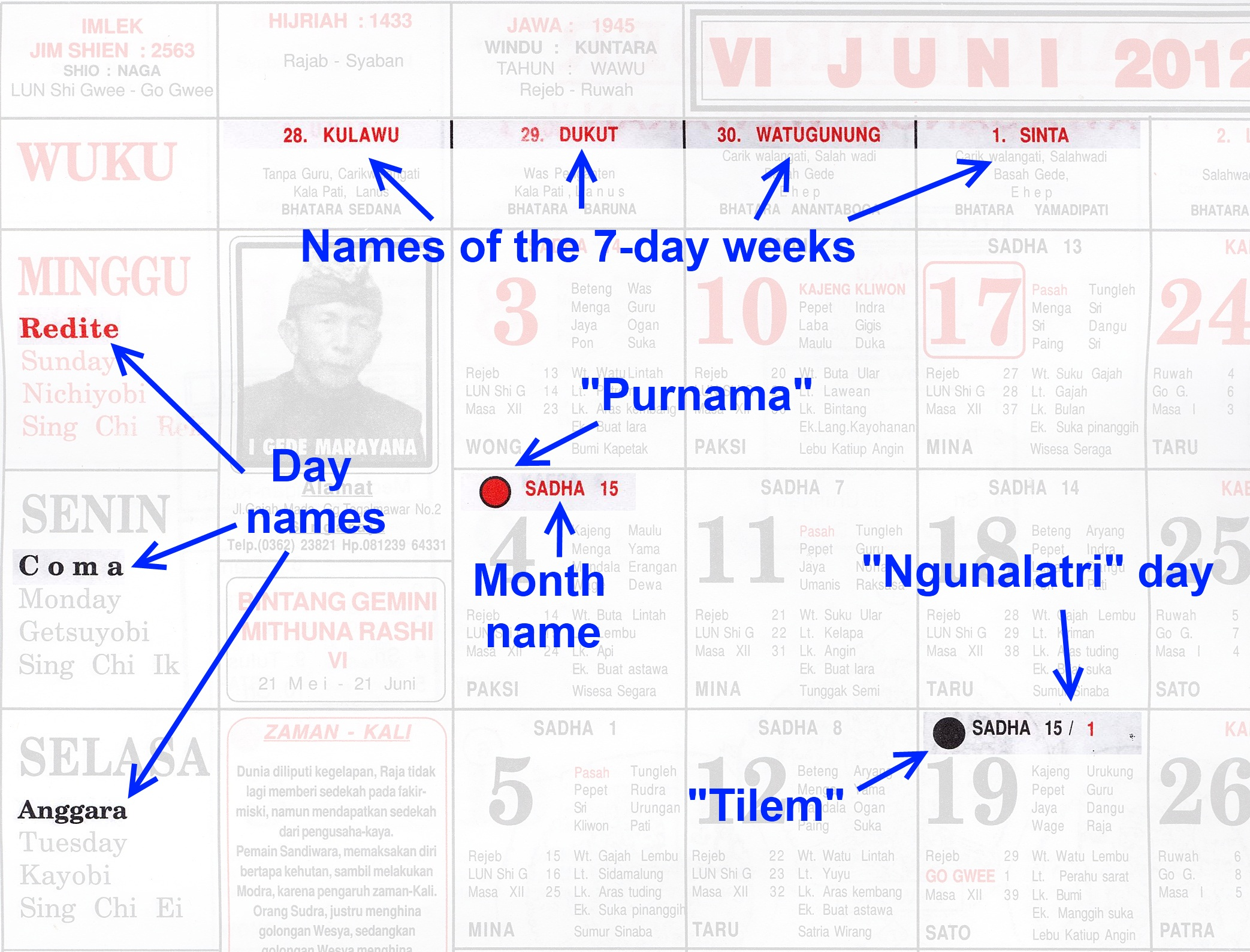 An annotated page of a Bali calendar showing the information related to the Bali Saka calendar